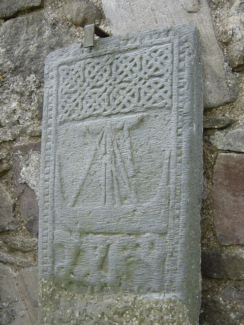 Viking Longship and celtic knotwork on gravestone There are a number of interesting gravestones on Inch Kenneth, of which this one appears to be the oldest with its weathered slate depiction of a Viking Longship